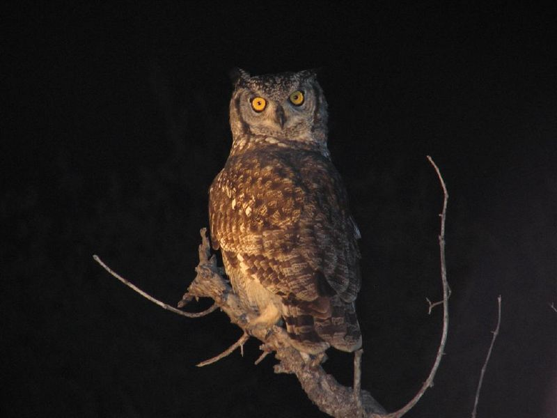 A Spotted Eagle-owl in the Umbabat Nature Reserve, Mpumalanga, South Africa. Photographed on a night drive in the wild - the owl was 30m away in the pitch dark.